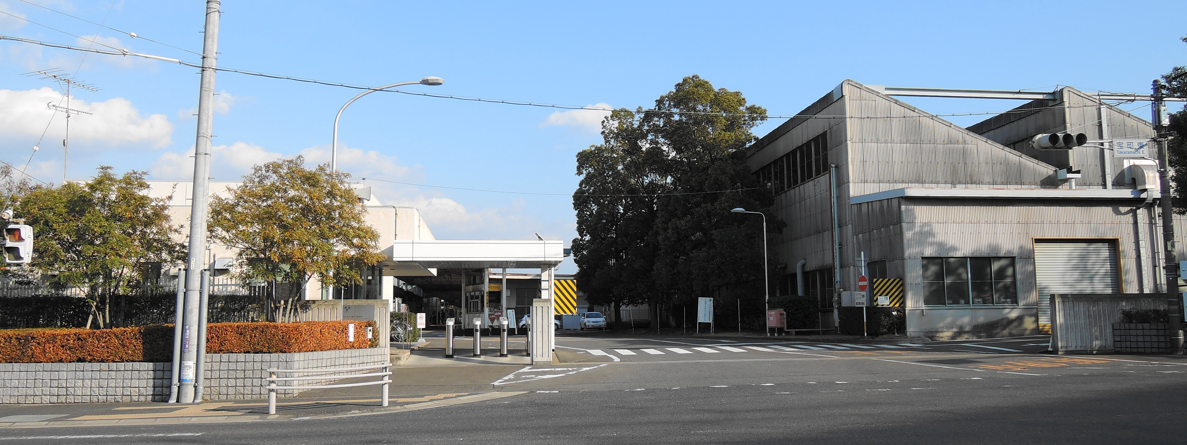 Headquarters of Toyota Industries Corporation,Aichi prefecture,Japan